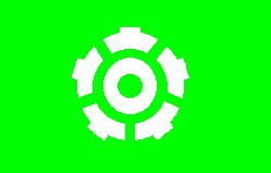 Flag of Gojome Akita